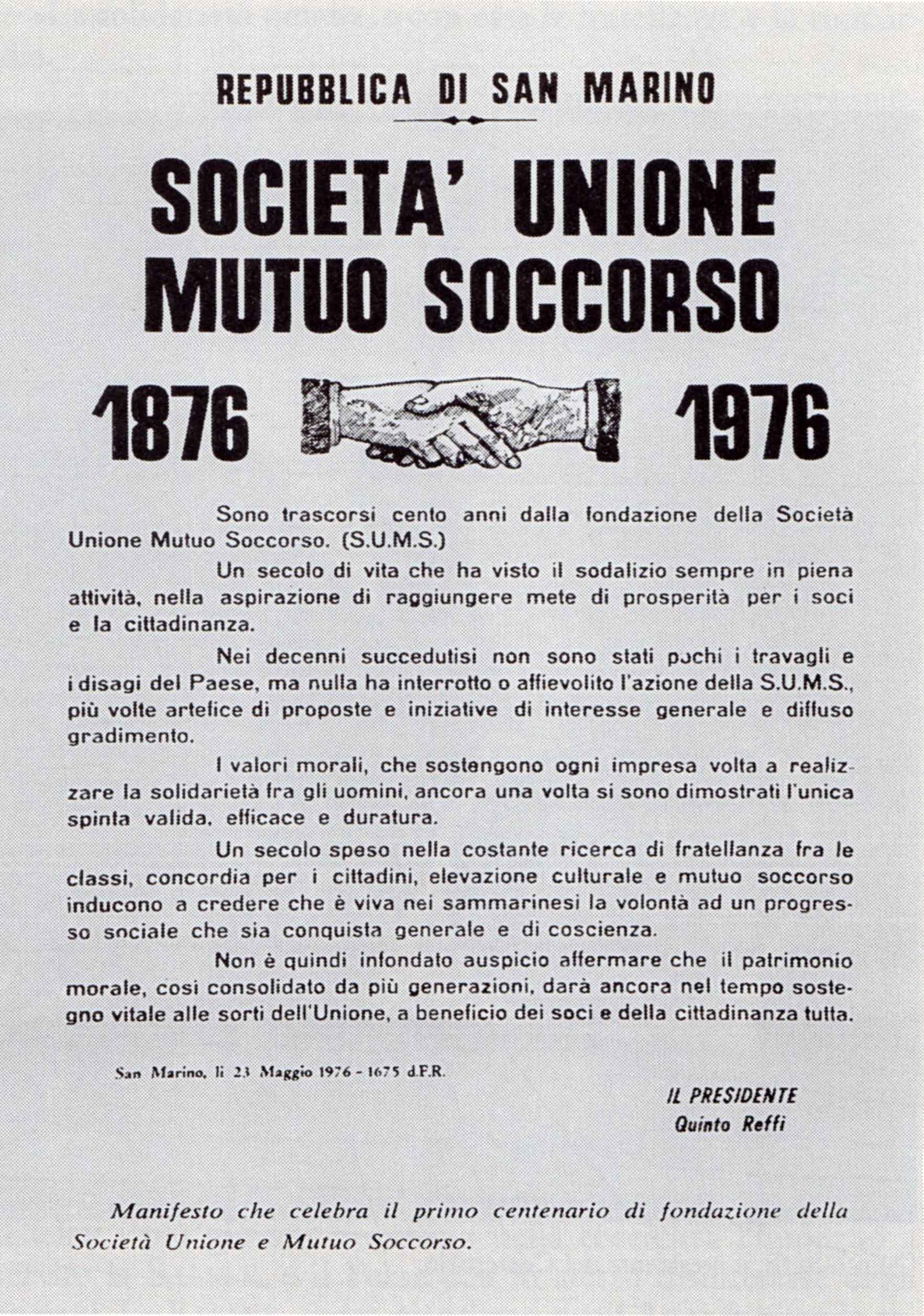 Anniversario della SUMS